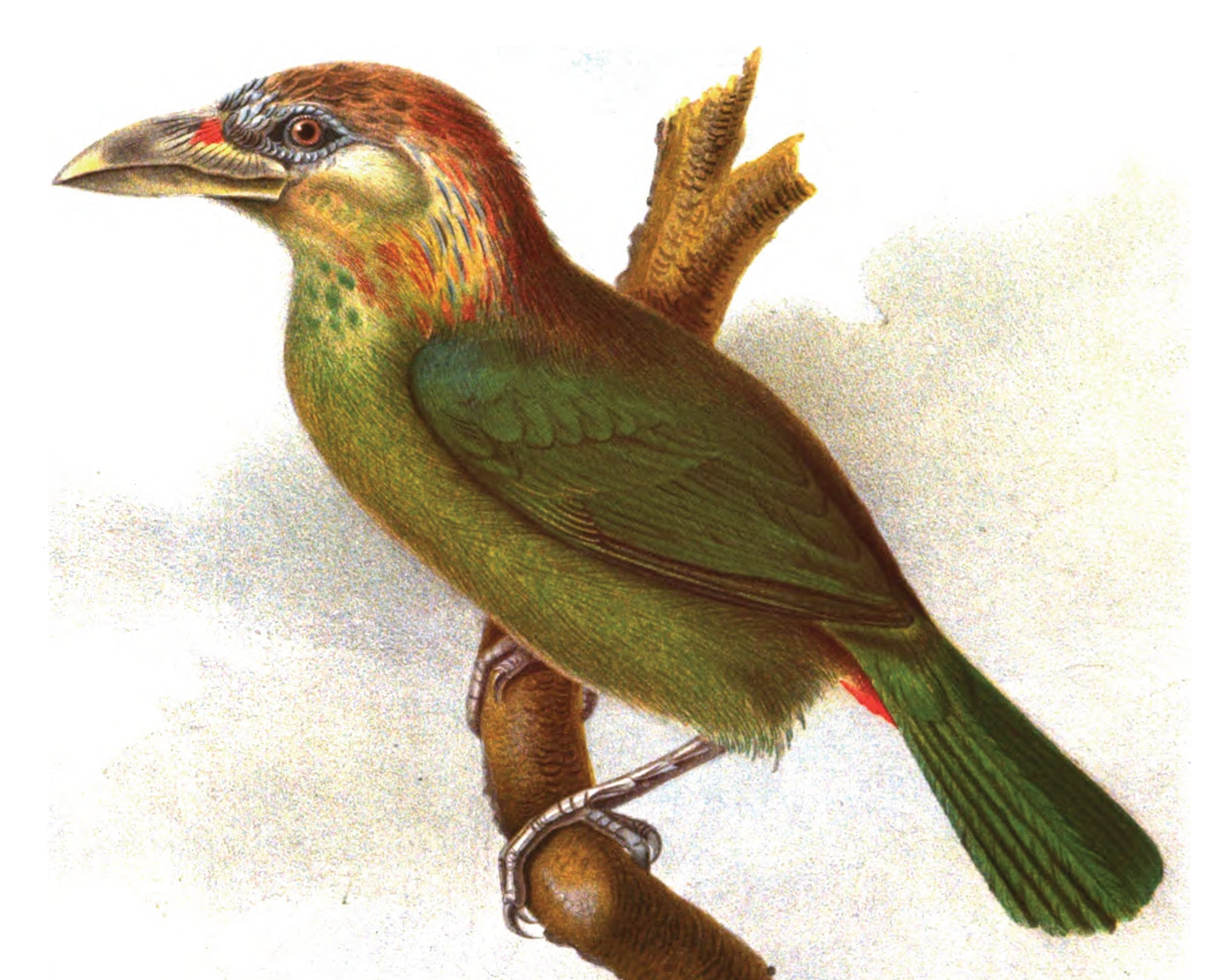 Red-vented Barbet (Megalaima lagrandieri)